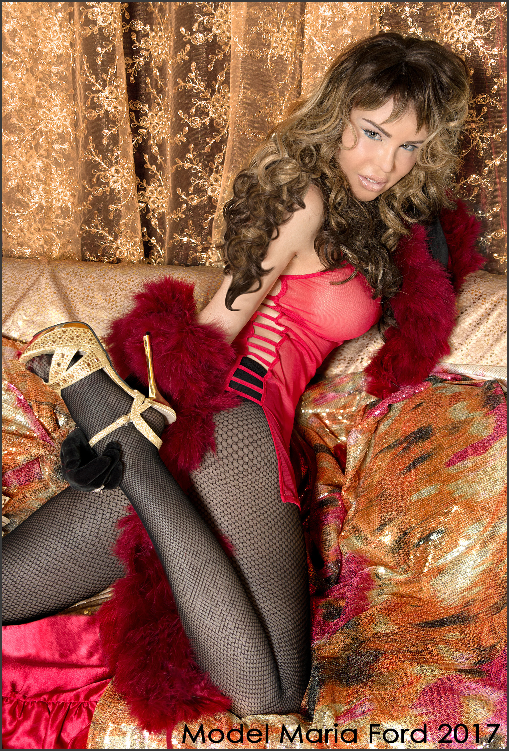 Maria Ford Model